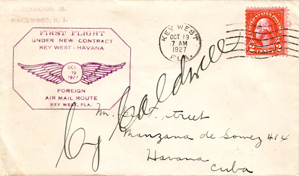 Flown cover autographed and carried by pilot Cy Caldwell in the Fairchild FC-2 floatplane "La NiÃ±a" from Key West. FL, to Havana, Cuba, on the first ever Air Mail flight made under contract by Pan American Airways (FAM-4) October 19, 1927